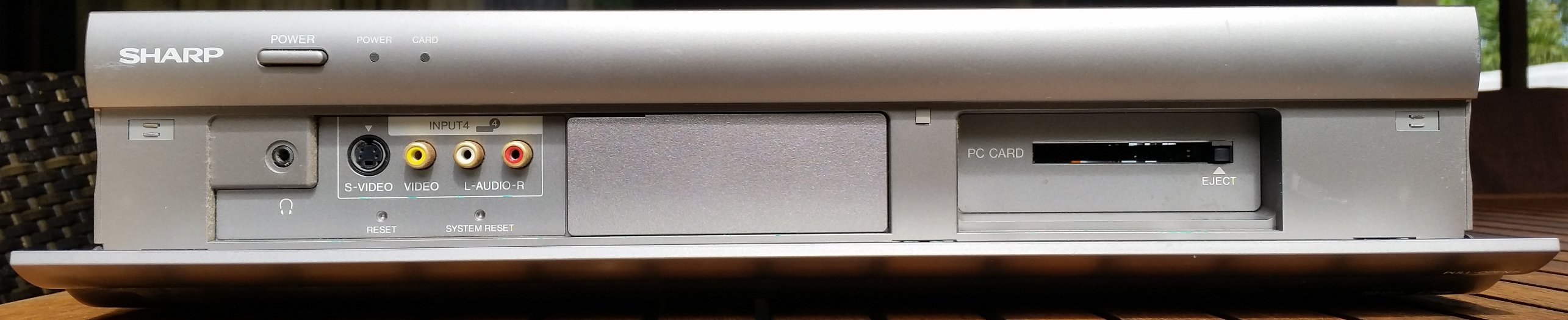 A Sharp TU-32GAX media receiver with a PC Card slot.